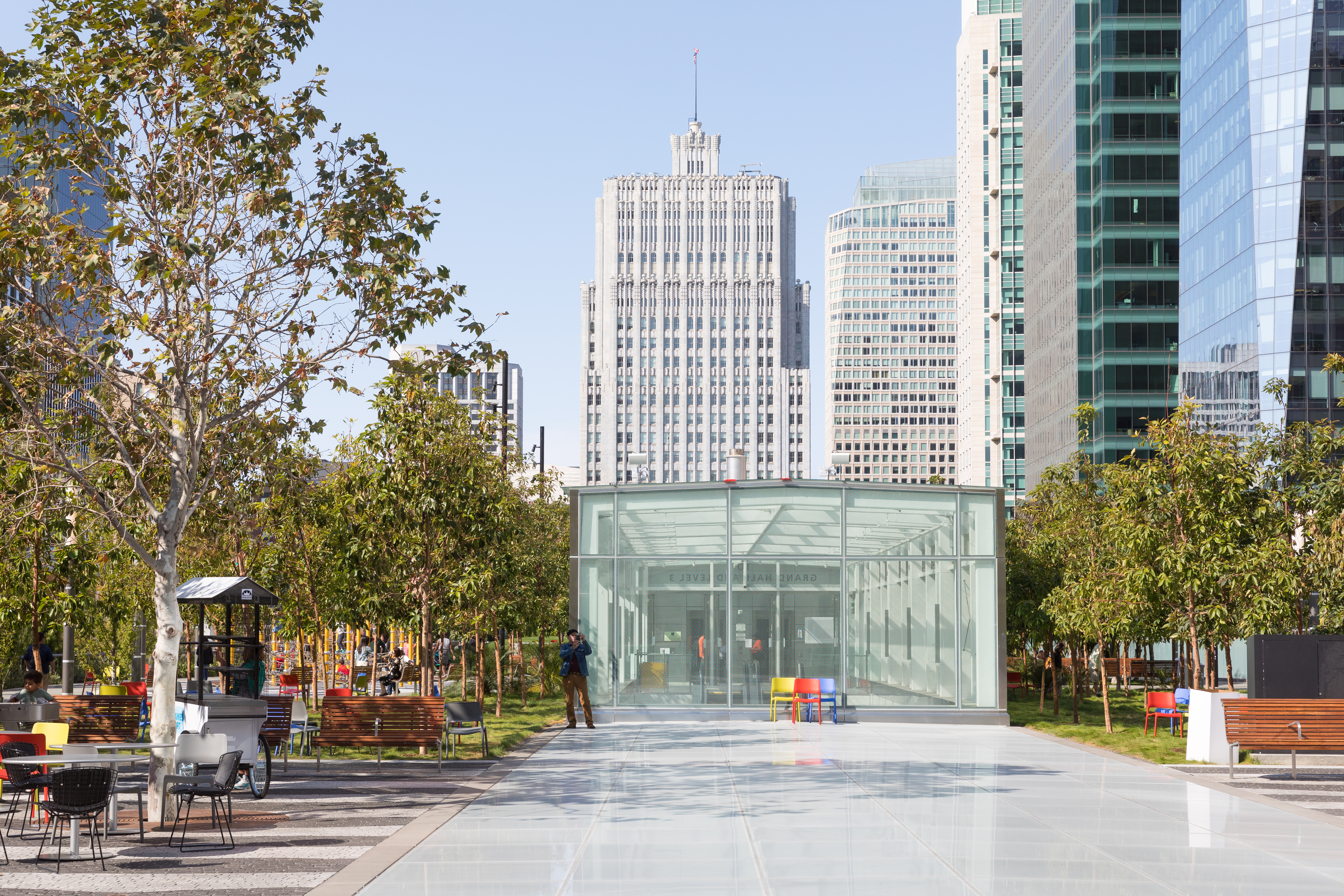 Transbay Transit Center in San Francisco, on the day after the opening: park with a view of the skyline of San Francisco